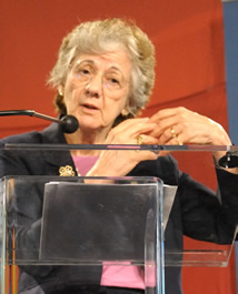 American environmental microbiologist and scientific administrator Rita R. Colwell, former Director of the United States National Science Foundation.